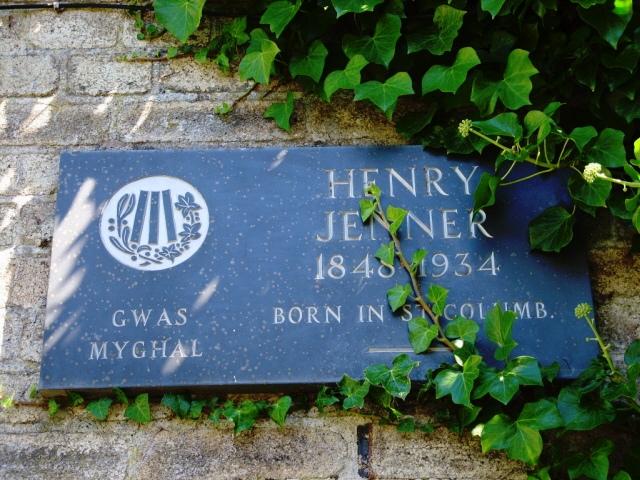 taken at st columb major - 2007